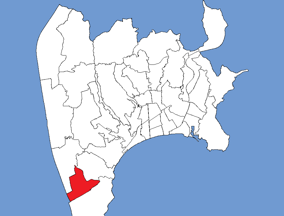 Location of the neighbourhood Saint Augustin in Nice